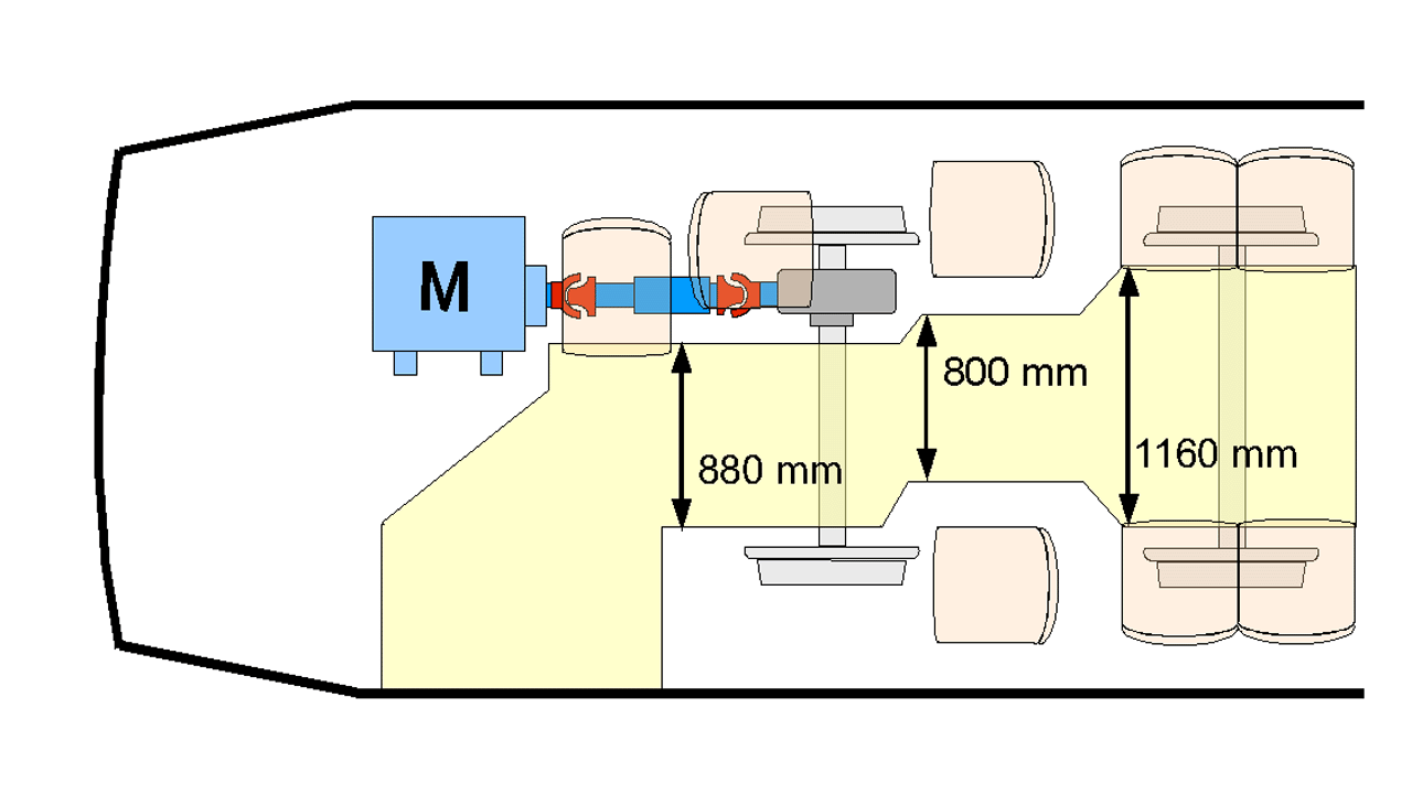 A schematic view of the Alna Little Dancer U, that a Japanese Low-floor Tram.